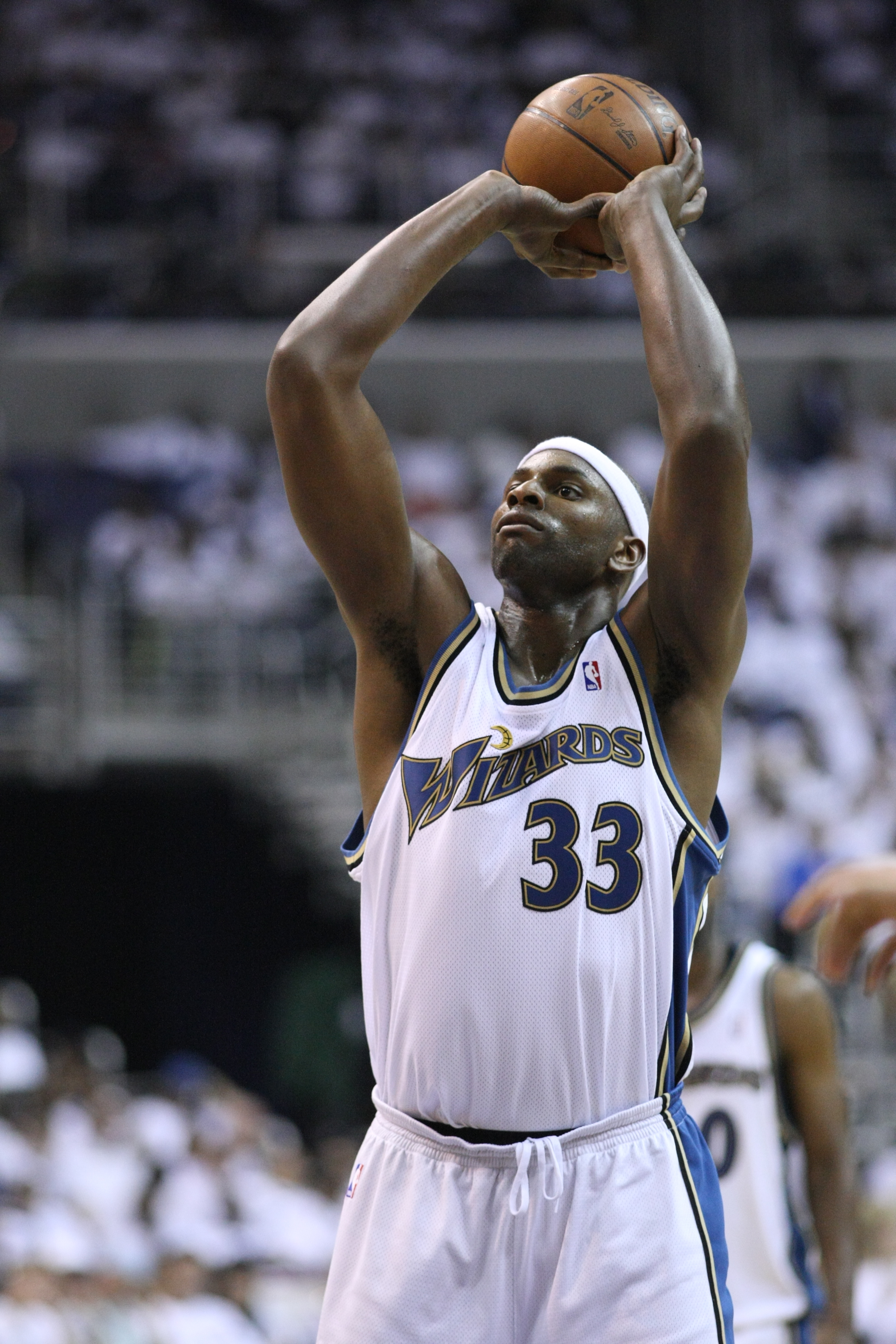 Brendan Haywood playing with the Washington Wizards